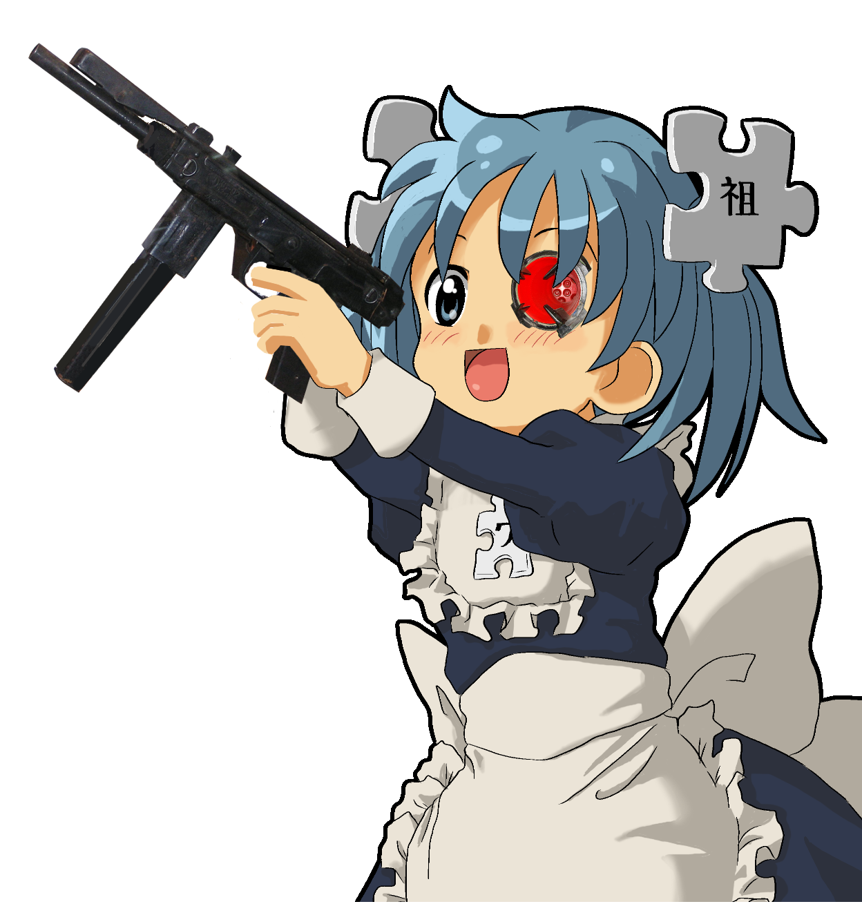 Wikipe-tan as the Terminator, part of image, for submission to the graphics lab. Part of File:Wikipe-tanminator_bot.gif